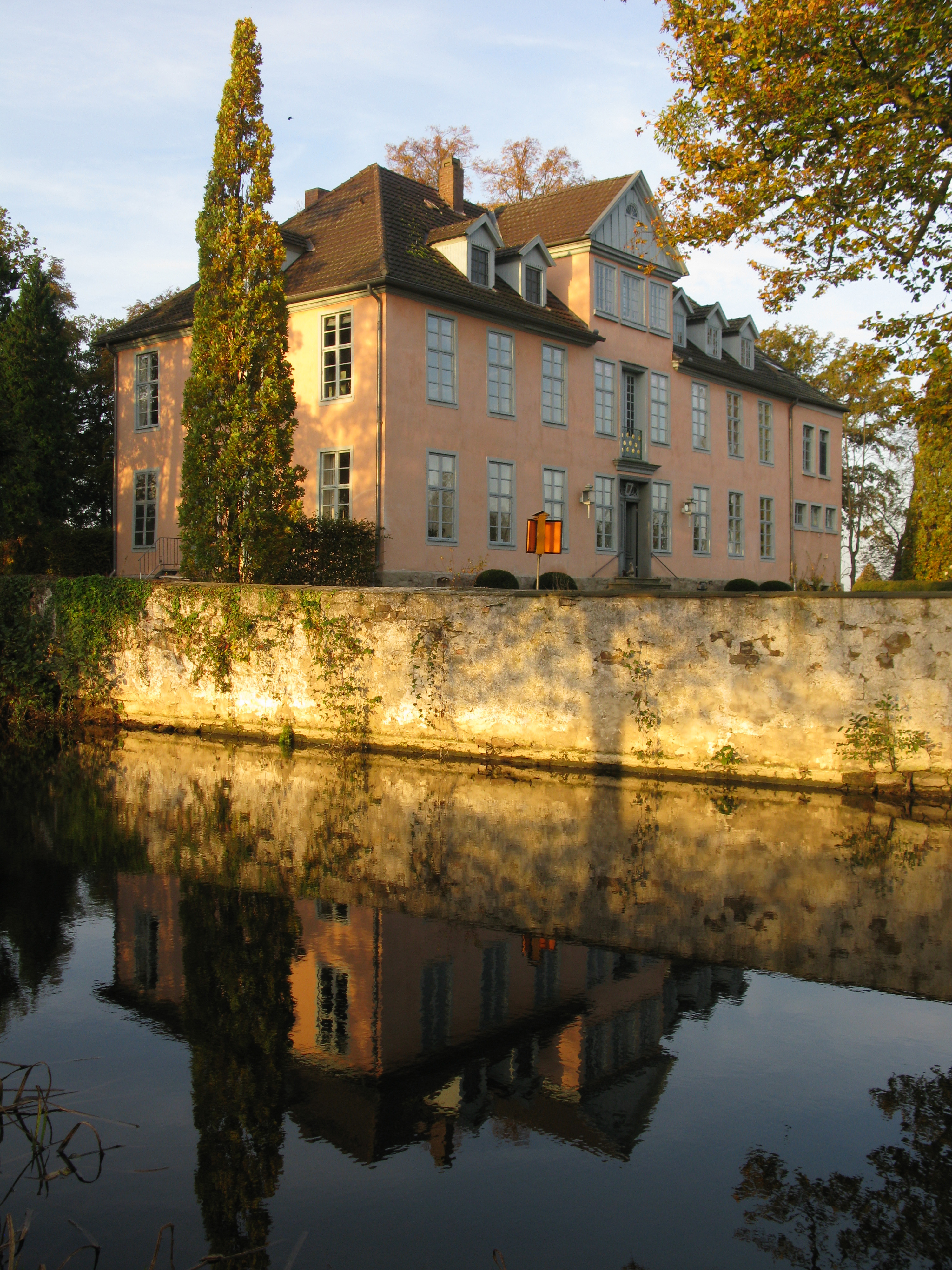 Gut Groß-Engershausen, Gutshaus This is a photograph of an architectural monument.It is on the list of cultural monuments of Preußisch Oldendorf